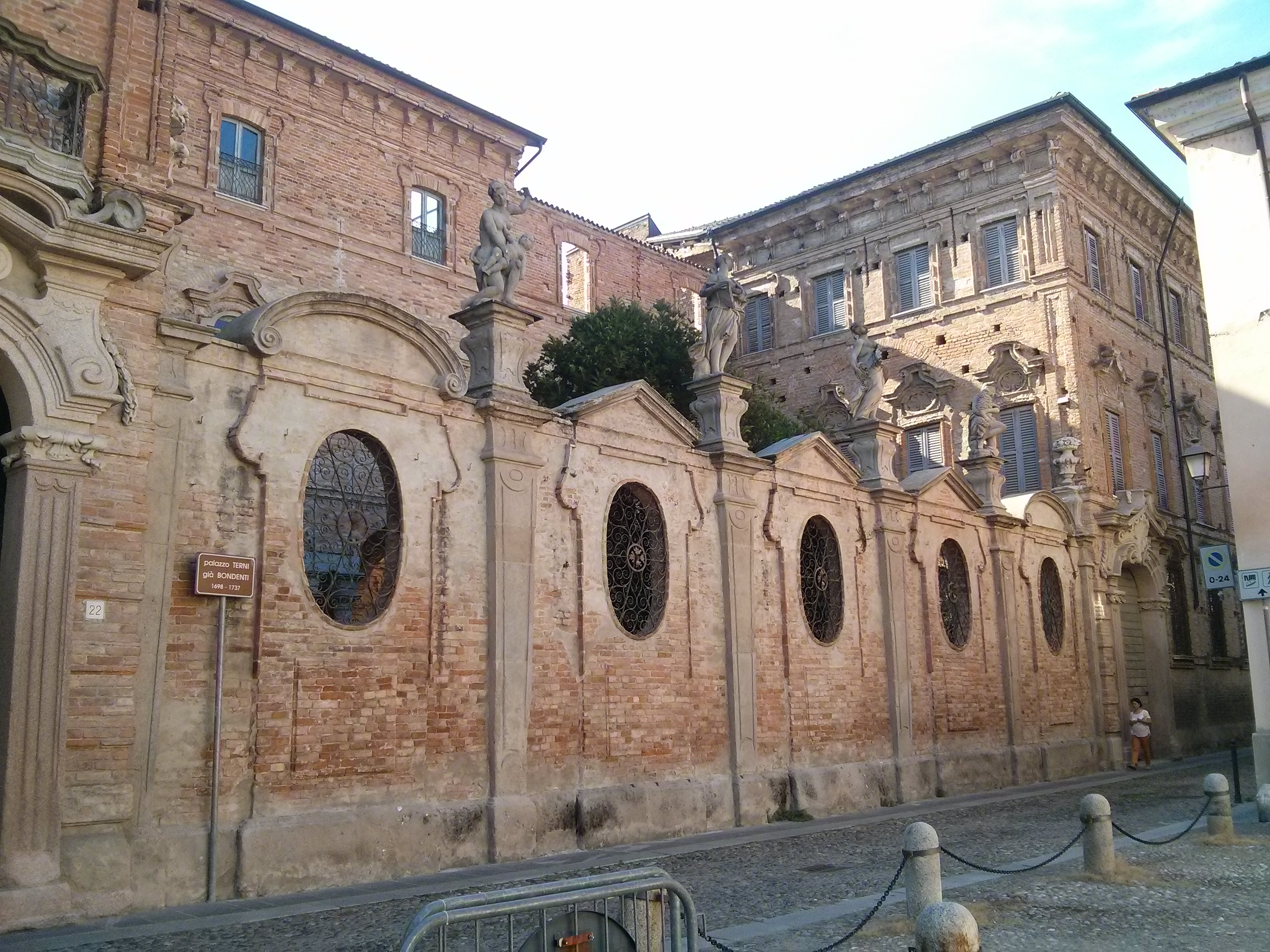 Crema scene